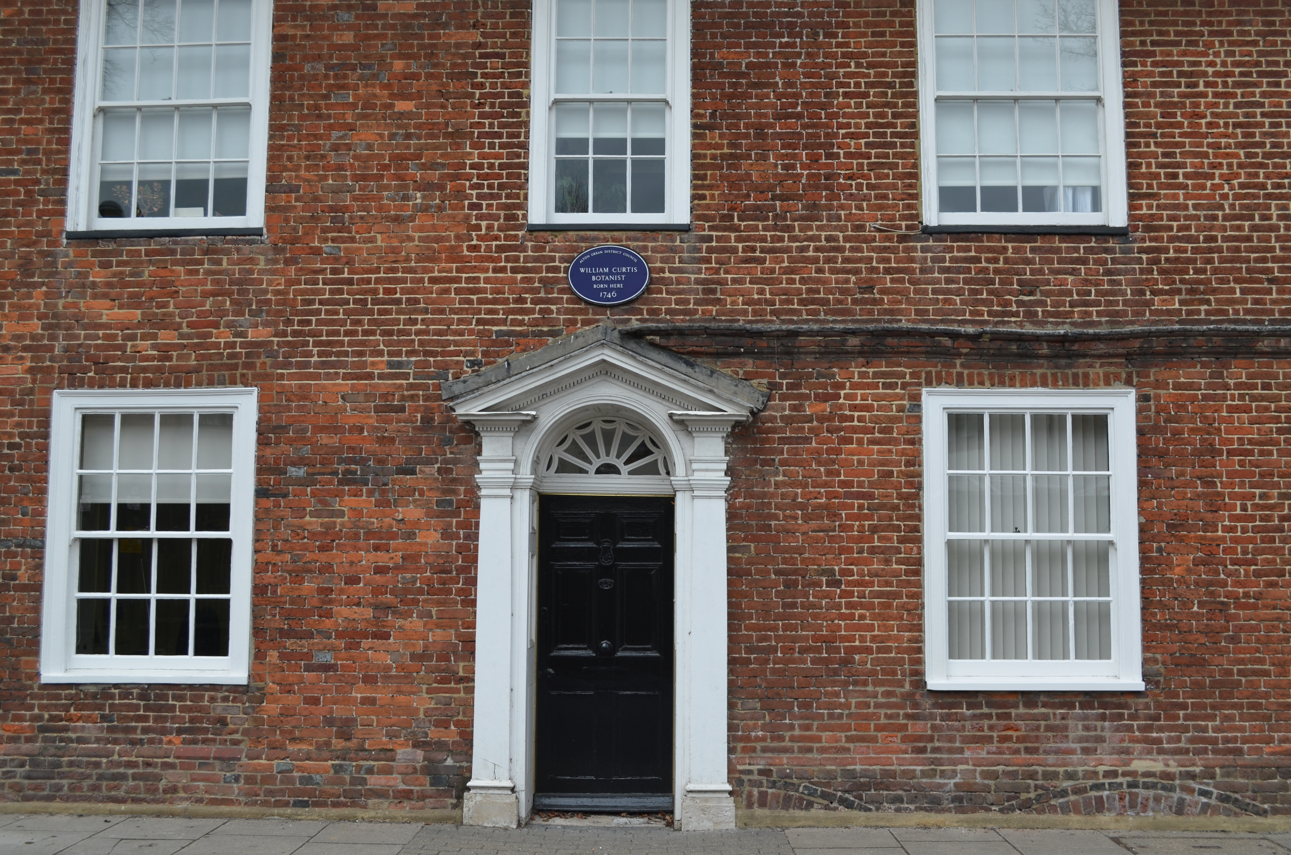 House on Lenten Street, Alton, Hants, where William Curtis was born